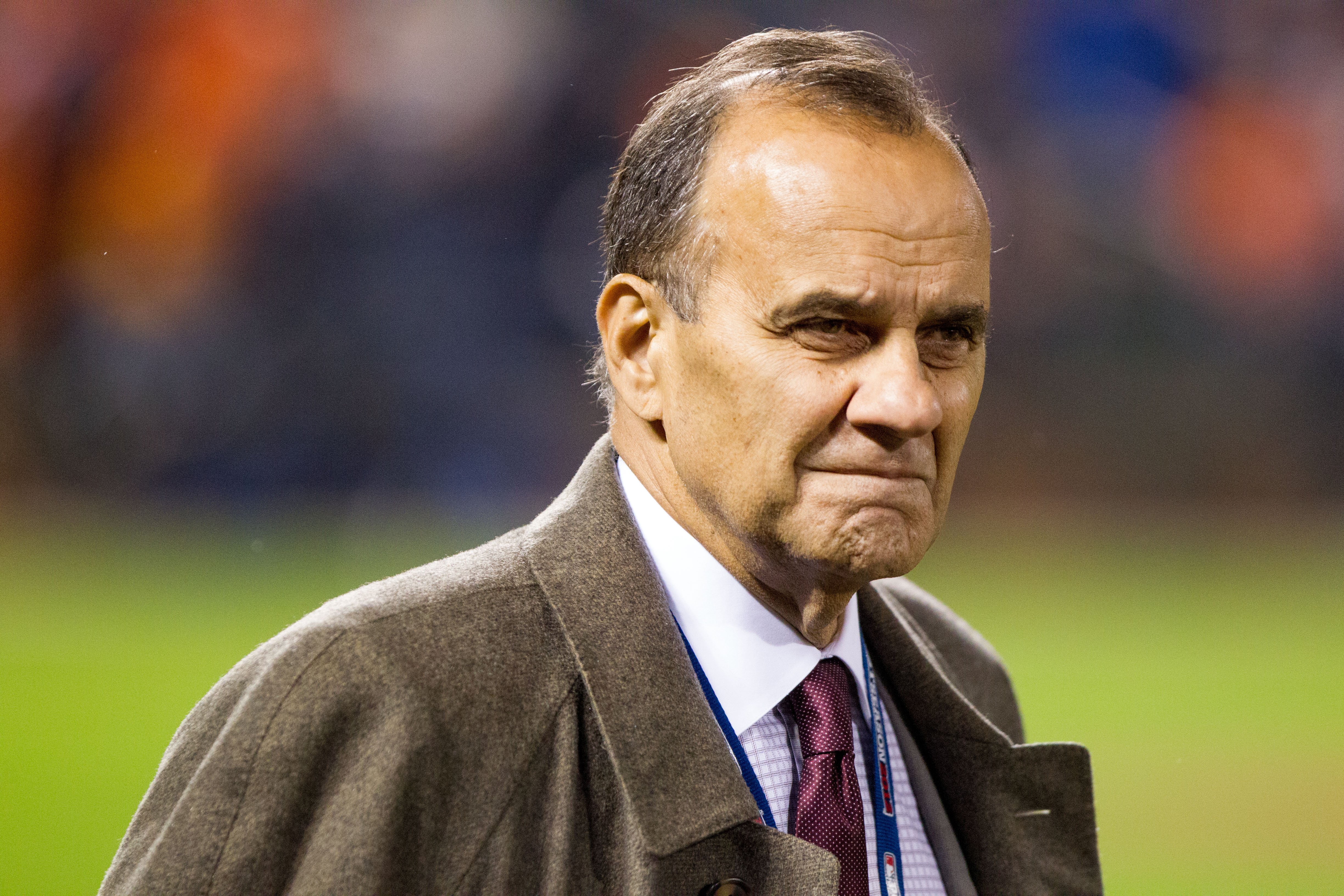 New York Yankees at Baltimore Orioles. ALDS Game 1. October 7, 2012.